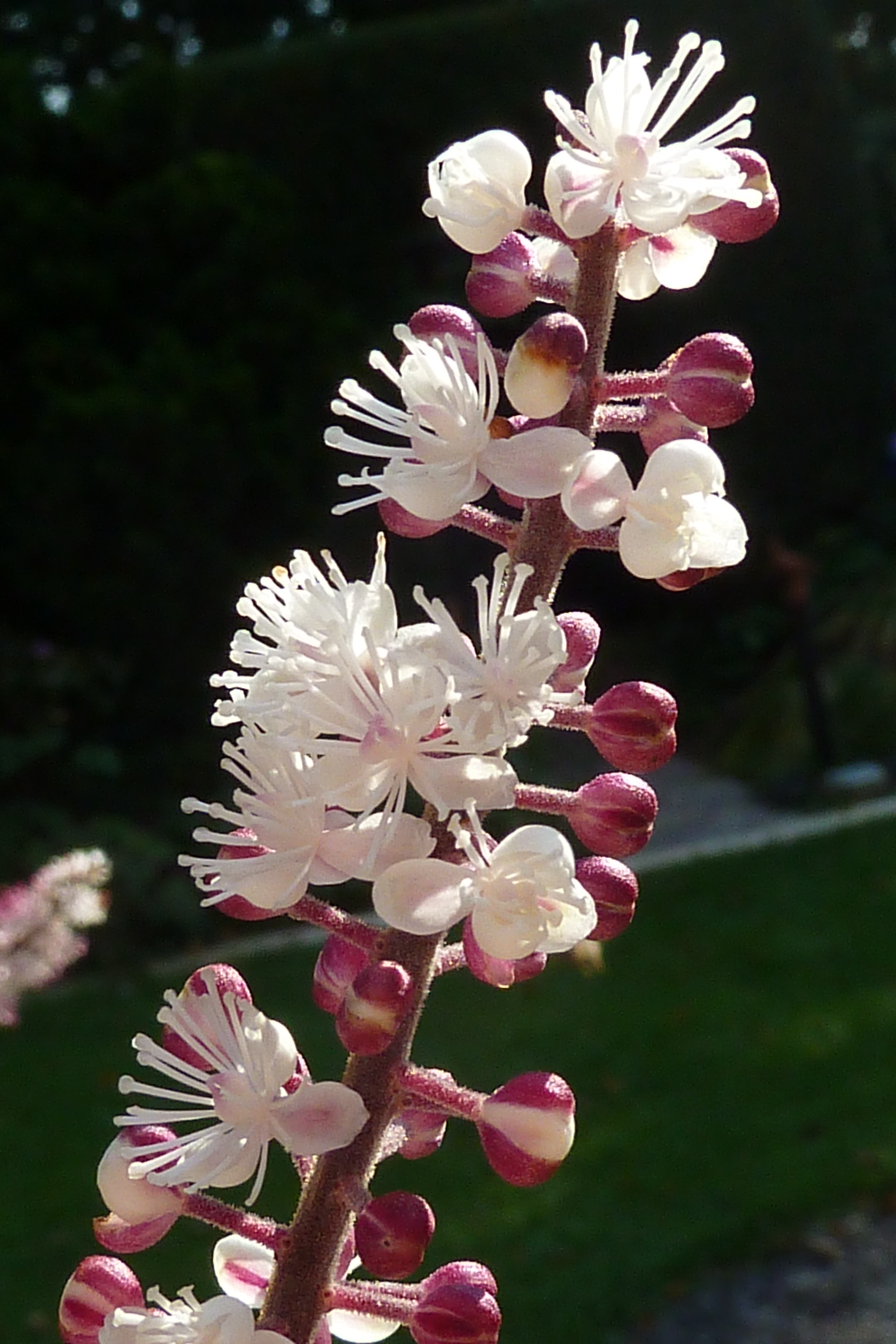 Black cohosh, Actaea racemosa 'Atropurpurea', flower